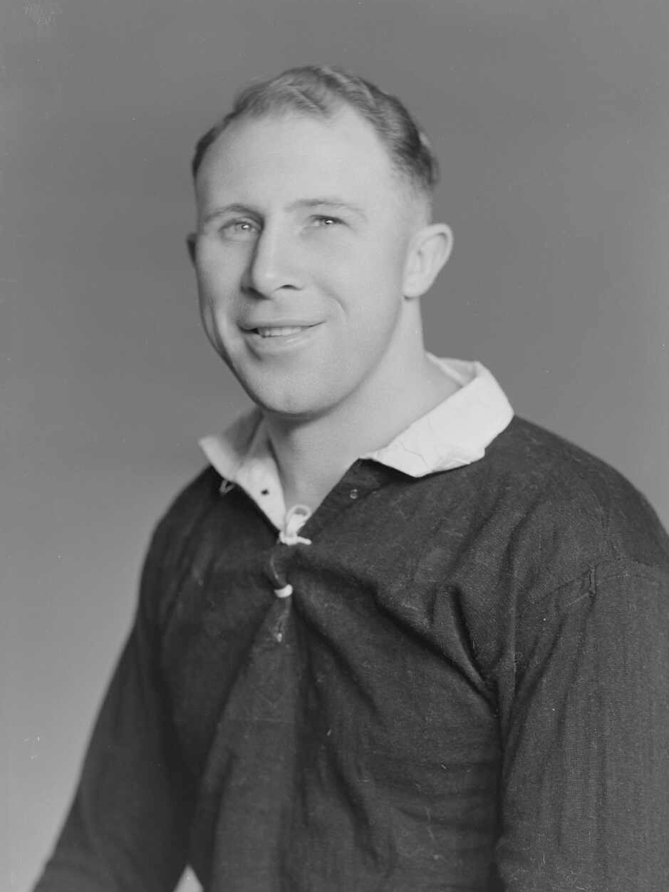 All Black player Bob Scott